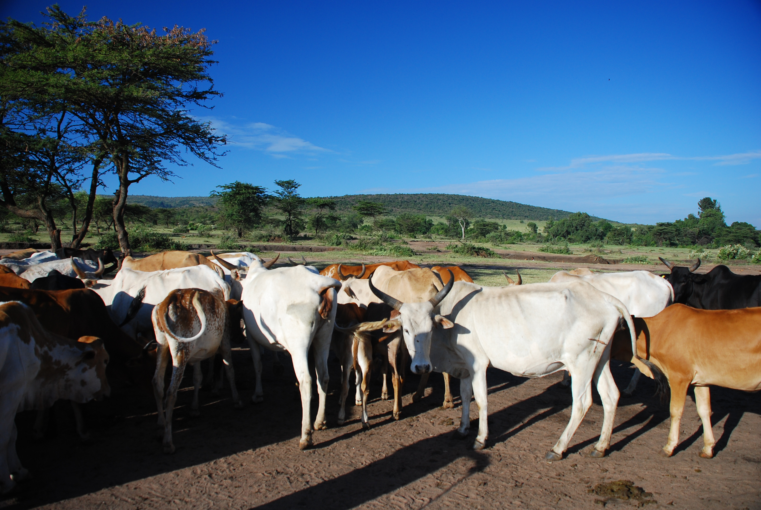 Cows of the Maasai, Masai Mara in Kenya. Scar on the cow in the foreground is a brand.